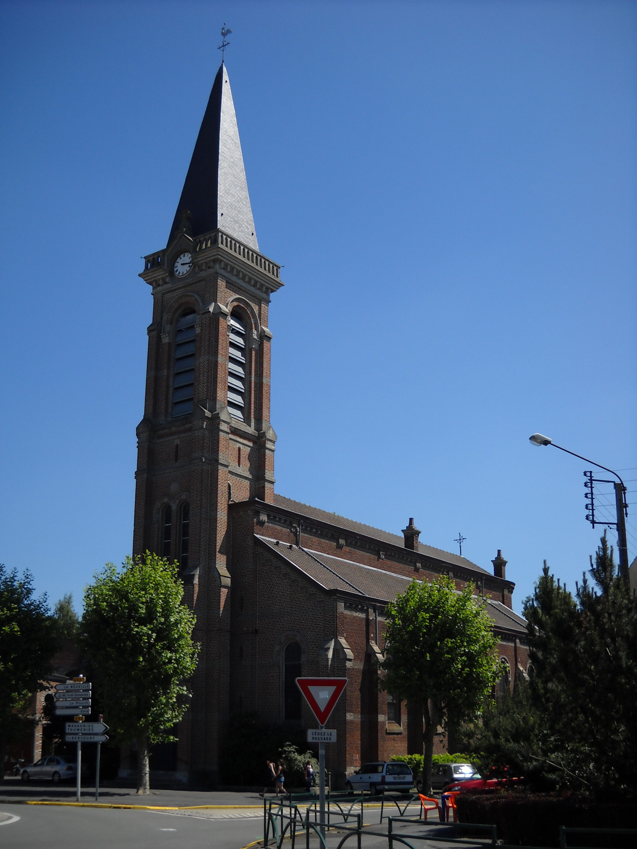 The church of Phalempin, Nord, France.